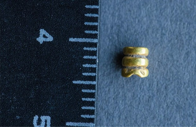 AUCA press